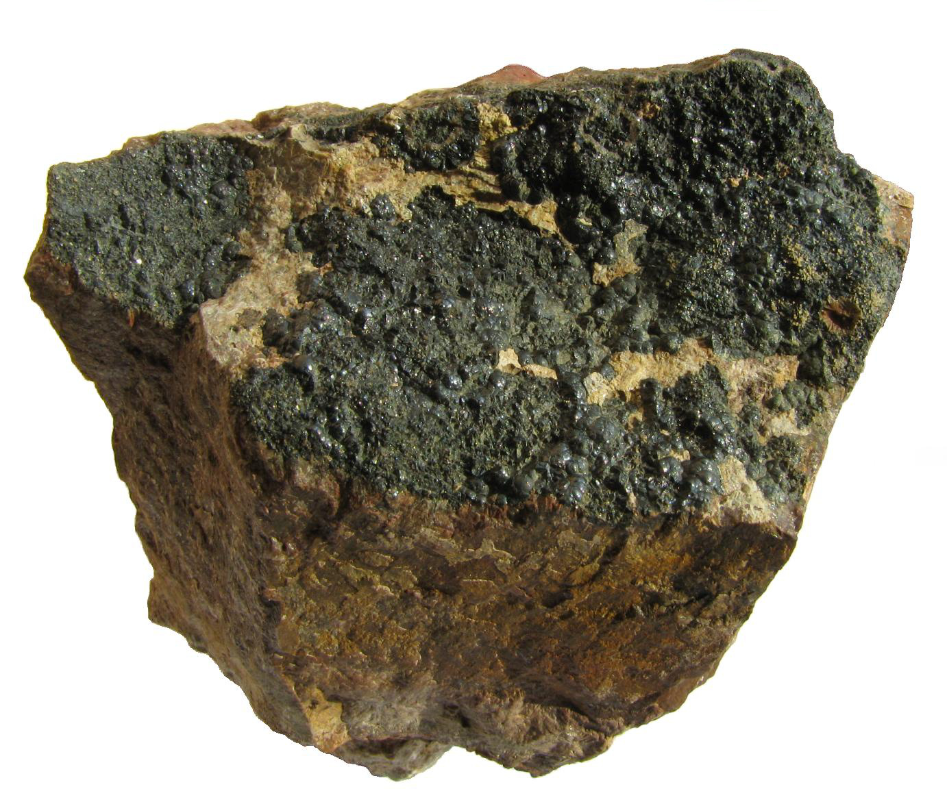 Pitchblende - Zálesí (Javorník) uranium mine, Czech Republic.